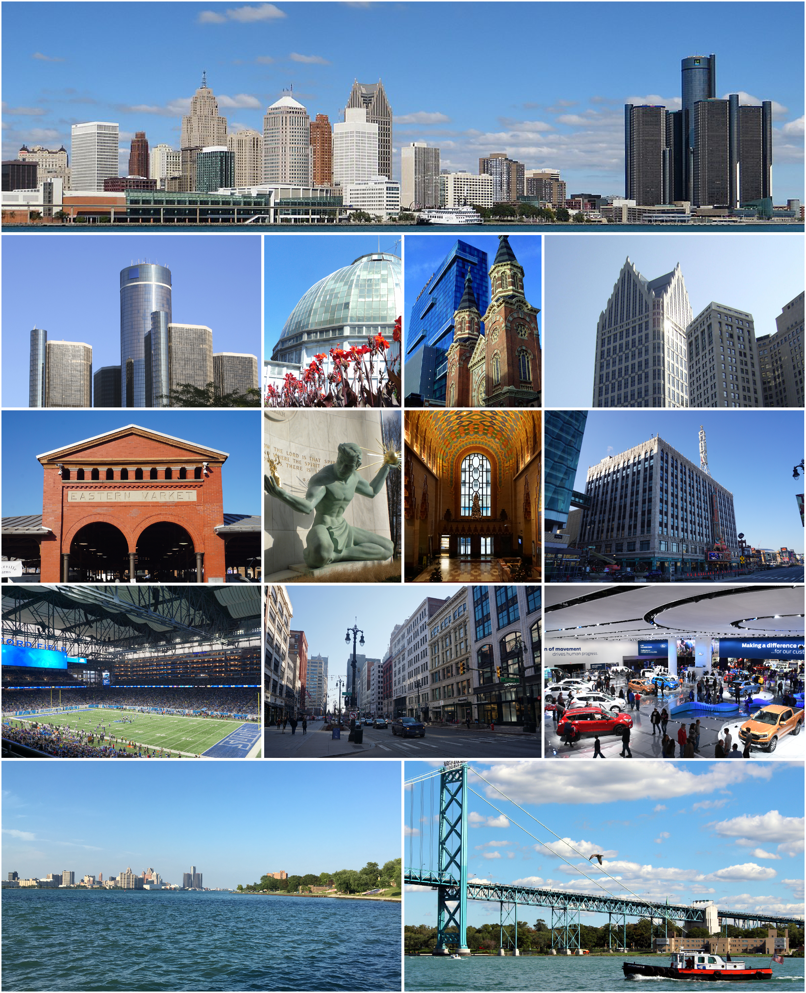 A montage of images of landmarks and events in Detroit. Clockwise: Skyline of Detroit, One Detroit Center, Detroit Fox Theatre, North American International Auto Show, Ambassador Bridge, Detroit River, Ford Field, Eastern Market, Renaissance Center, Belle Isle Conservatory, Greektown, Guardian Building, Woodward Avenue, and Spirit of Detroit.